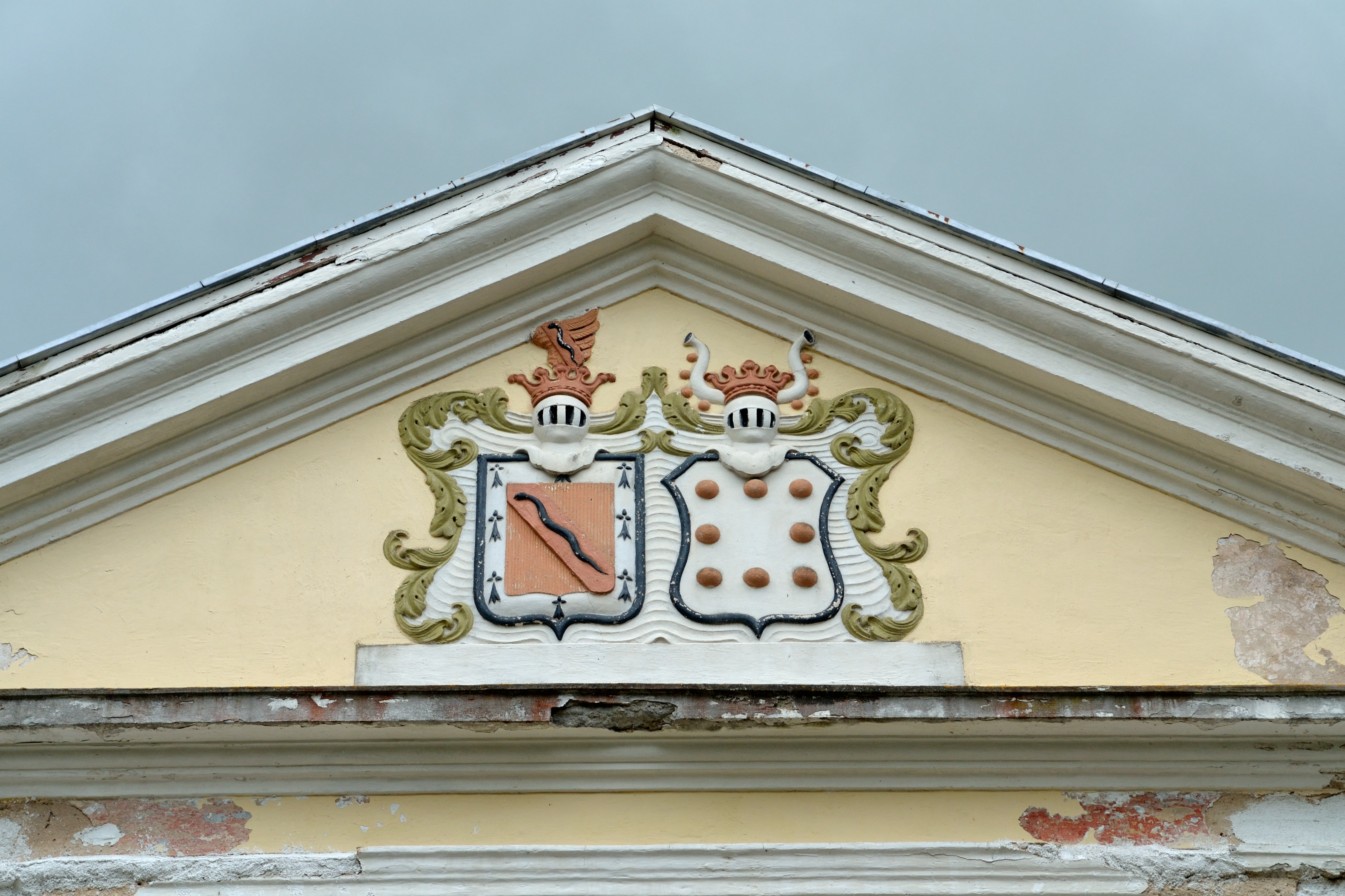 Coat of arms of von Breven and von Holstein on Kostivere manor house pediment